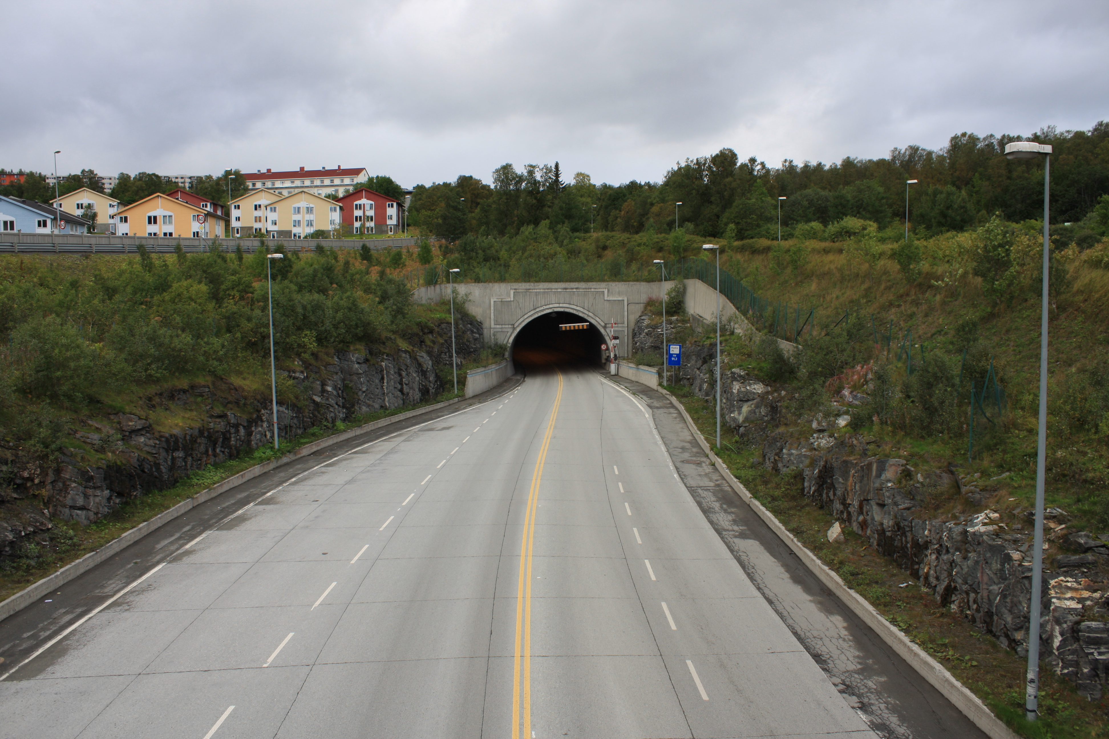 The entrance in Breivika